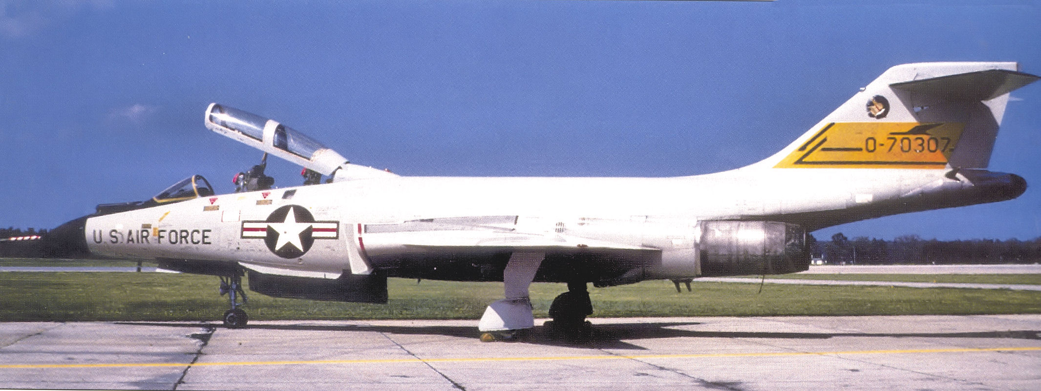 445th Fighter-Interceptor Squadron McDonnell F-101F-86-MC Voodoo 57-307 Wurtsmith AFB, Michigan, September 1968